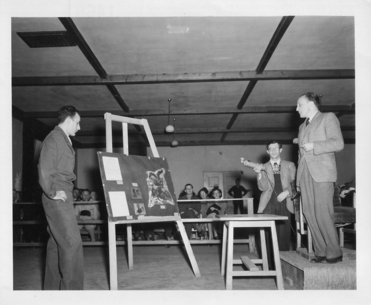 "16 Apr. At the Buchenwald War Crimes Trial, Dachau, Germany, is shown from l-r: Mr. Surowitz, one of the prosecutors; Werner Klein, radio reporter; and Dr. Sitte, witness for the prosecution. Dr. Sitte is shown identifying human skin from dead prisoners at Buchenwald concentration camp."